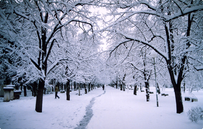 Bitola's main park in winter.